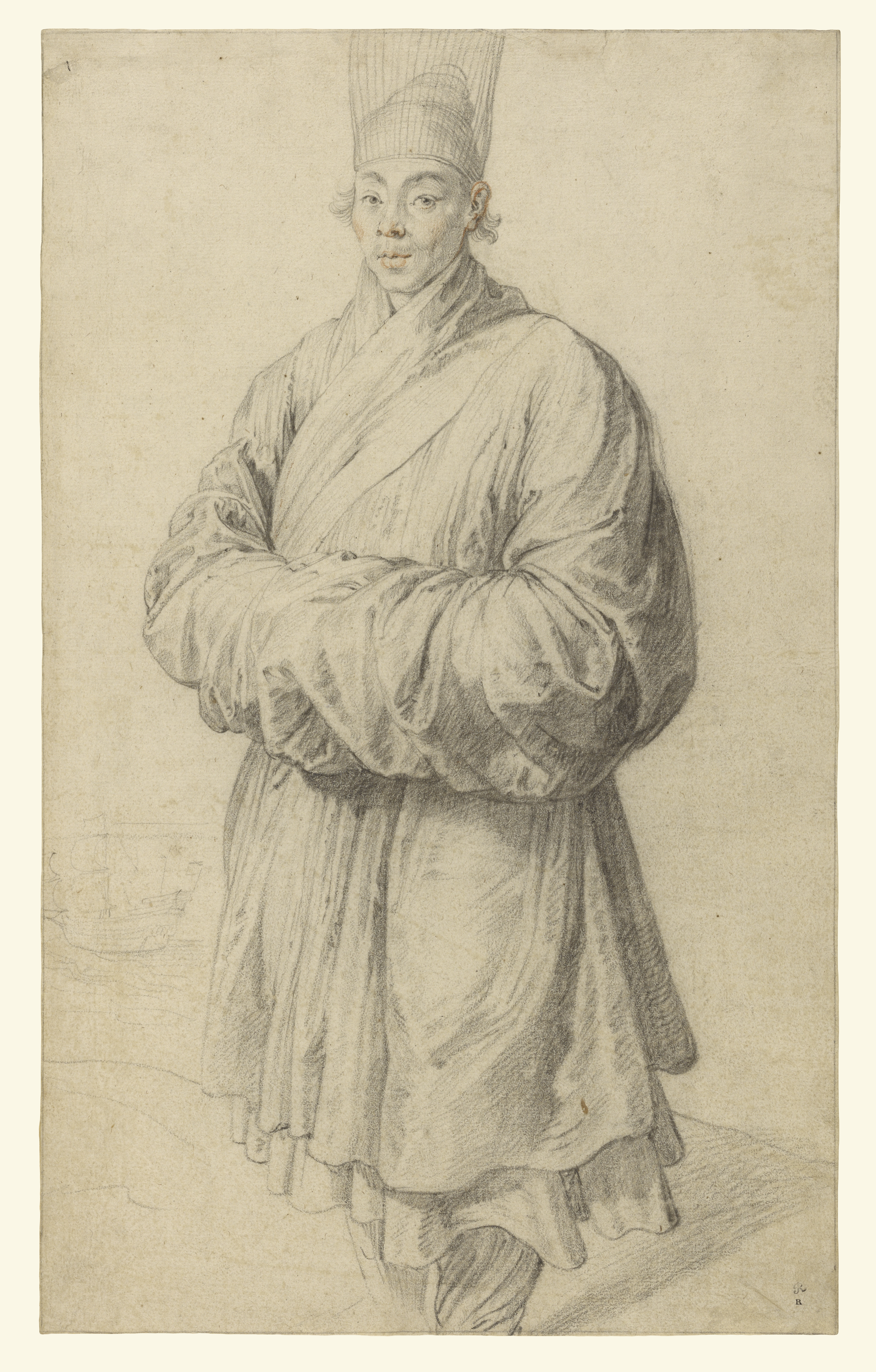 Man in Korean Costume by Peter Paul Rubens, about 1617. Black chalk with touches of red chalk in the face, 38.4 x 23.5 cm. The J. Paul Getty Museum